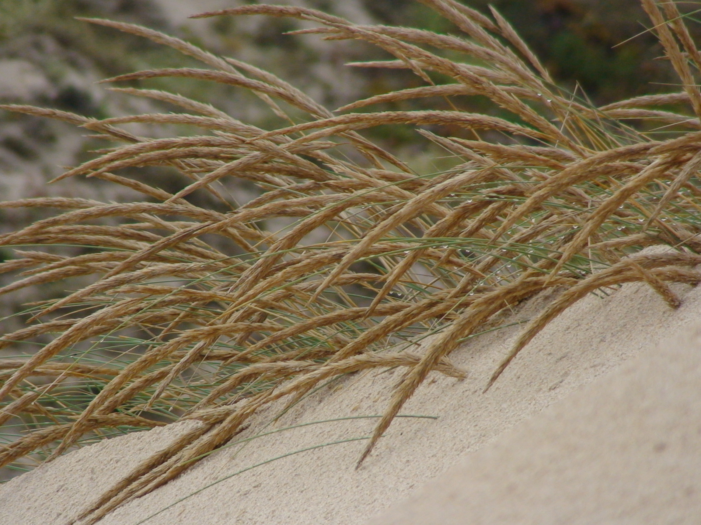 European Marram Grass Ammophila arenaria. Inflorescences. Baleal, Peniche, Portugal.